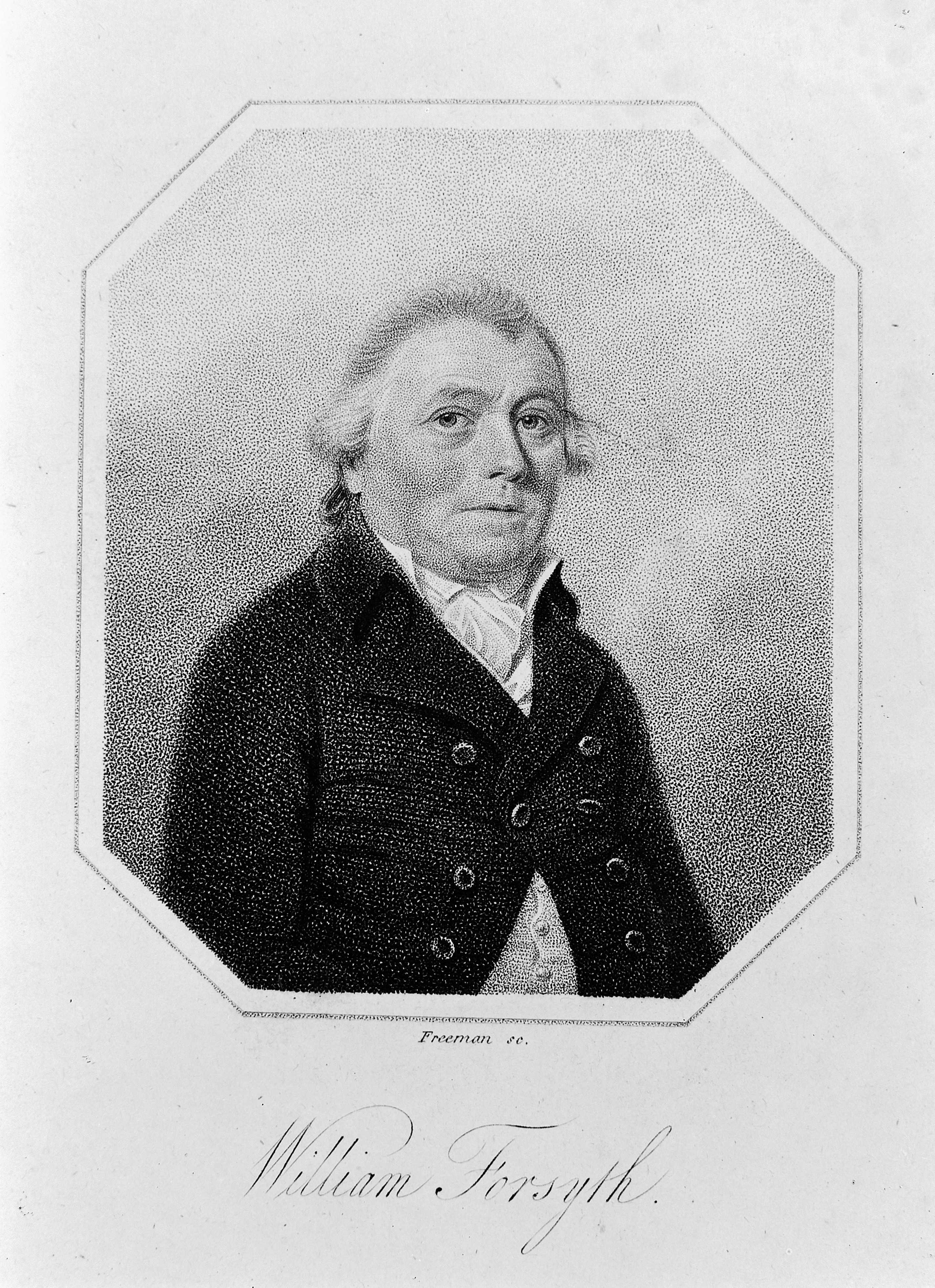 William Forsyth. Stipple engraving by S. Freeman. Iconographic Collections Keywords: William Forsyth